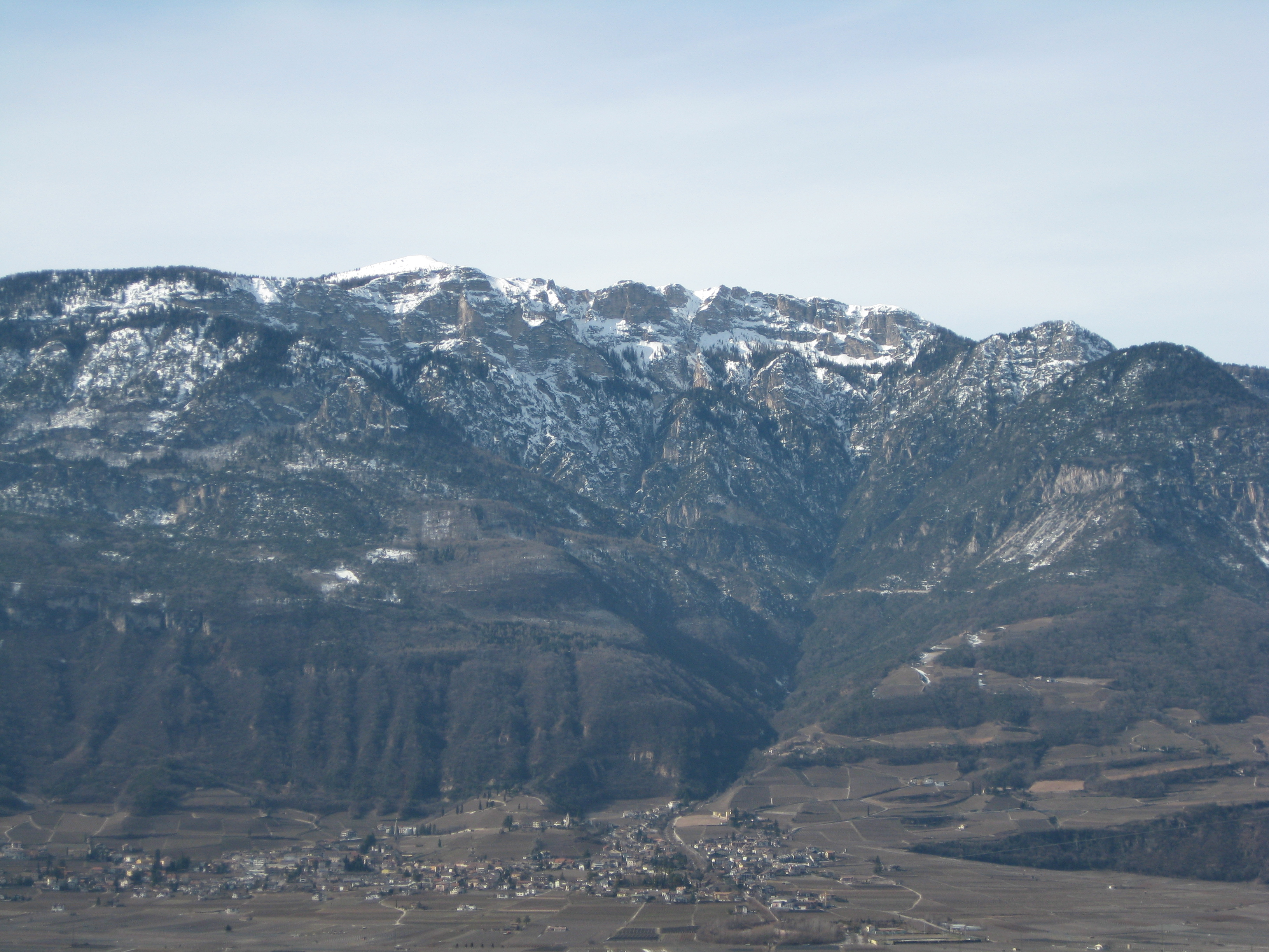 Mount Roen and Tramin, as seen from Montan